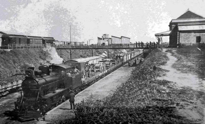 Train at Zárate railway station, then operated by the Buenos Aires Central Railway.